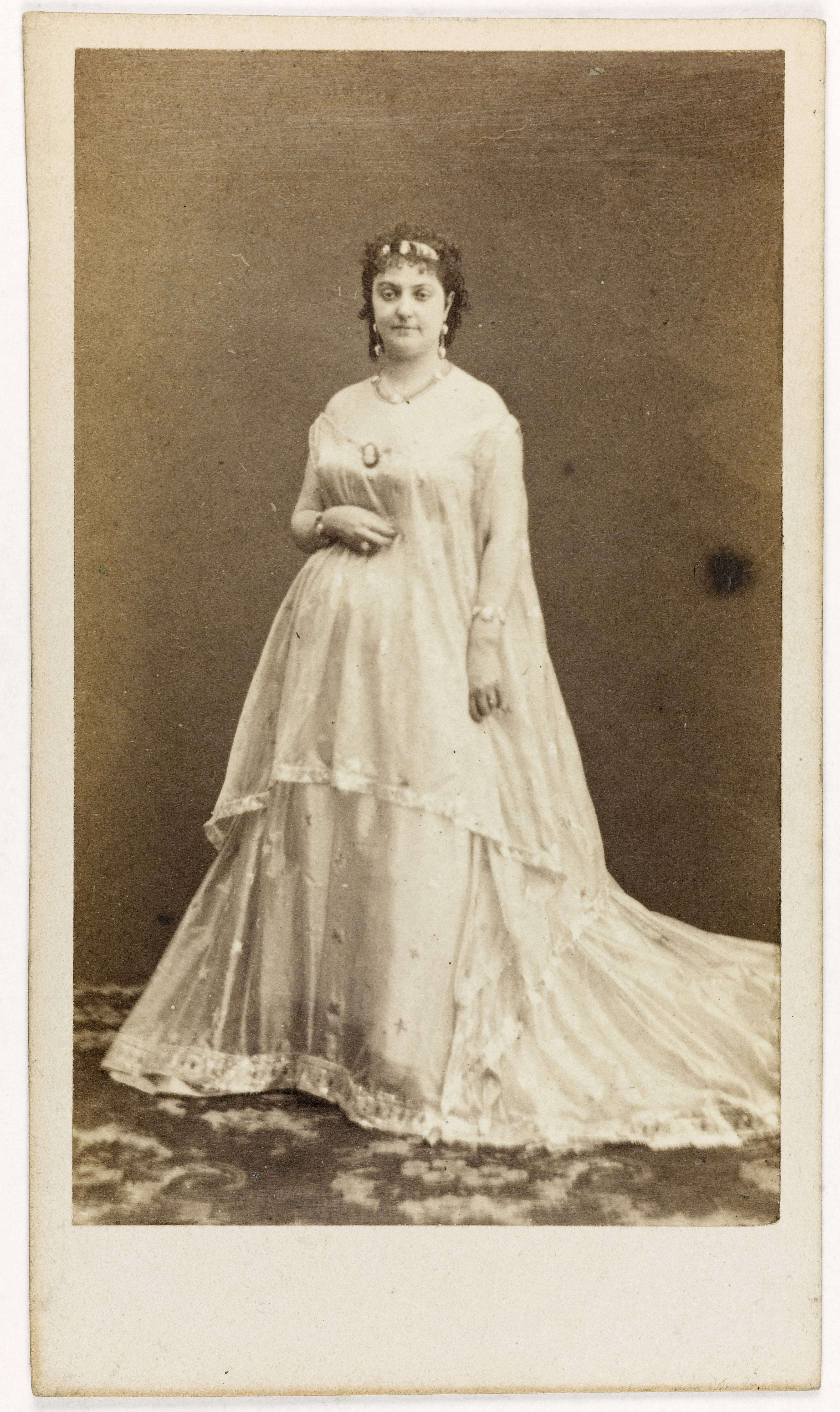 Portrait d'Alice Théric, actrice. Carte de visite (recto). Photographie de Numa Fils. Tirage sur papier albuminé, avant 1856-1856. Paris, musée Carnavalet.